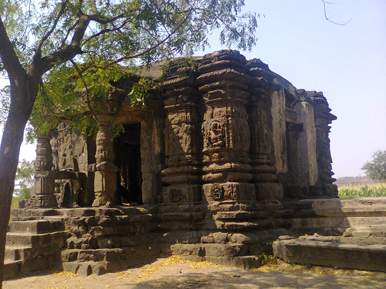 Mahadev shivtemple near kanbai temple